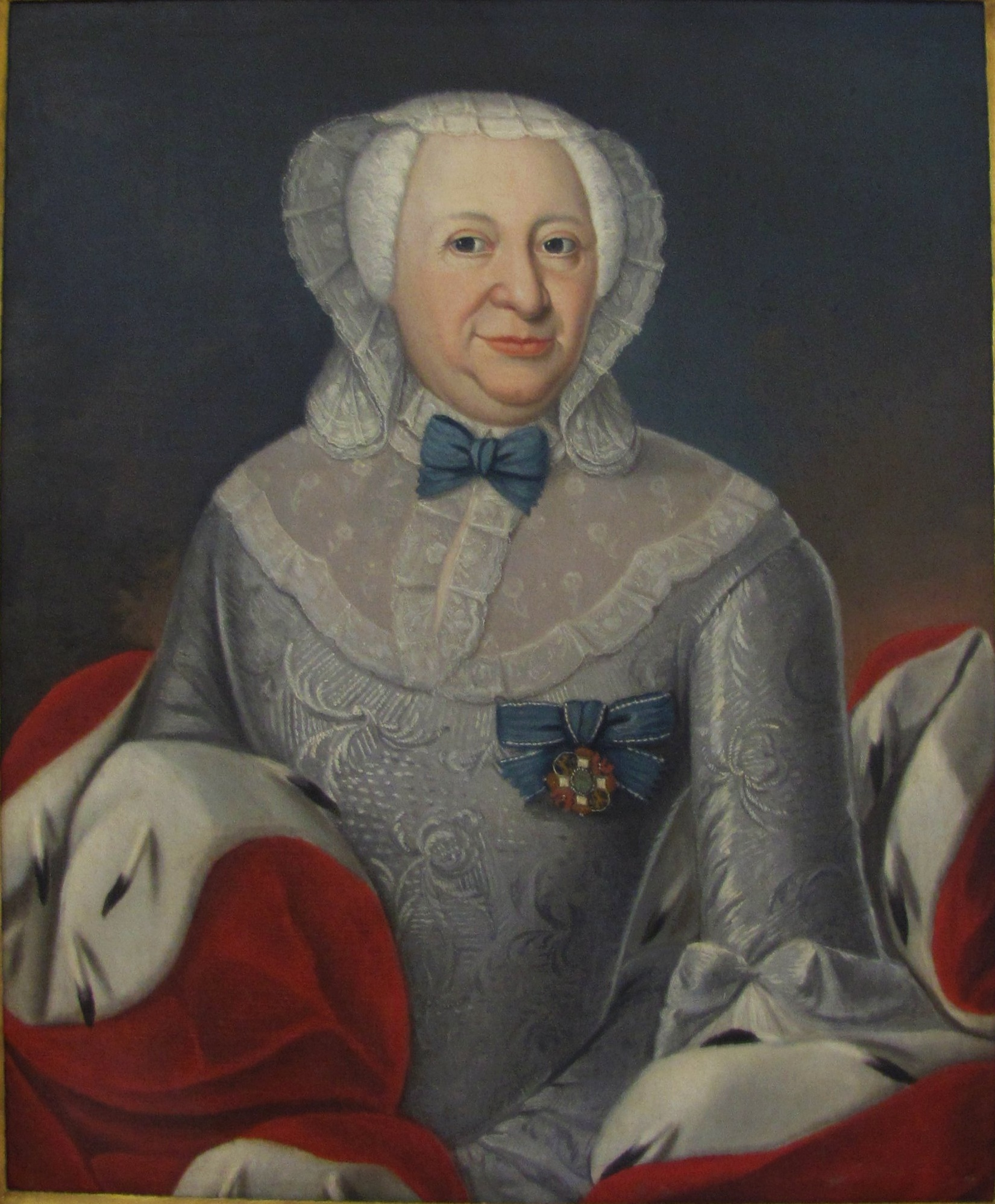 She is wearing the Ordre de l'union parfait